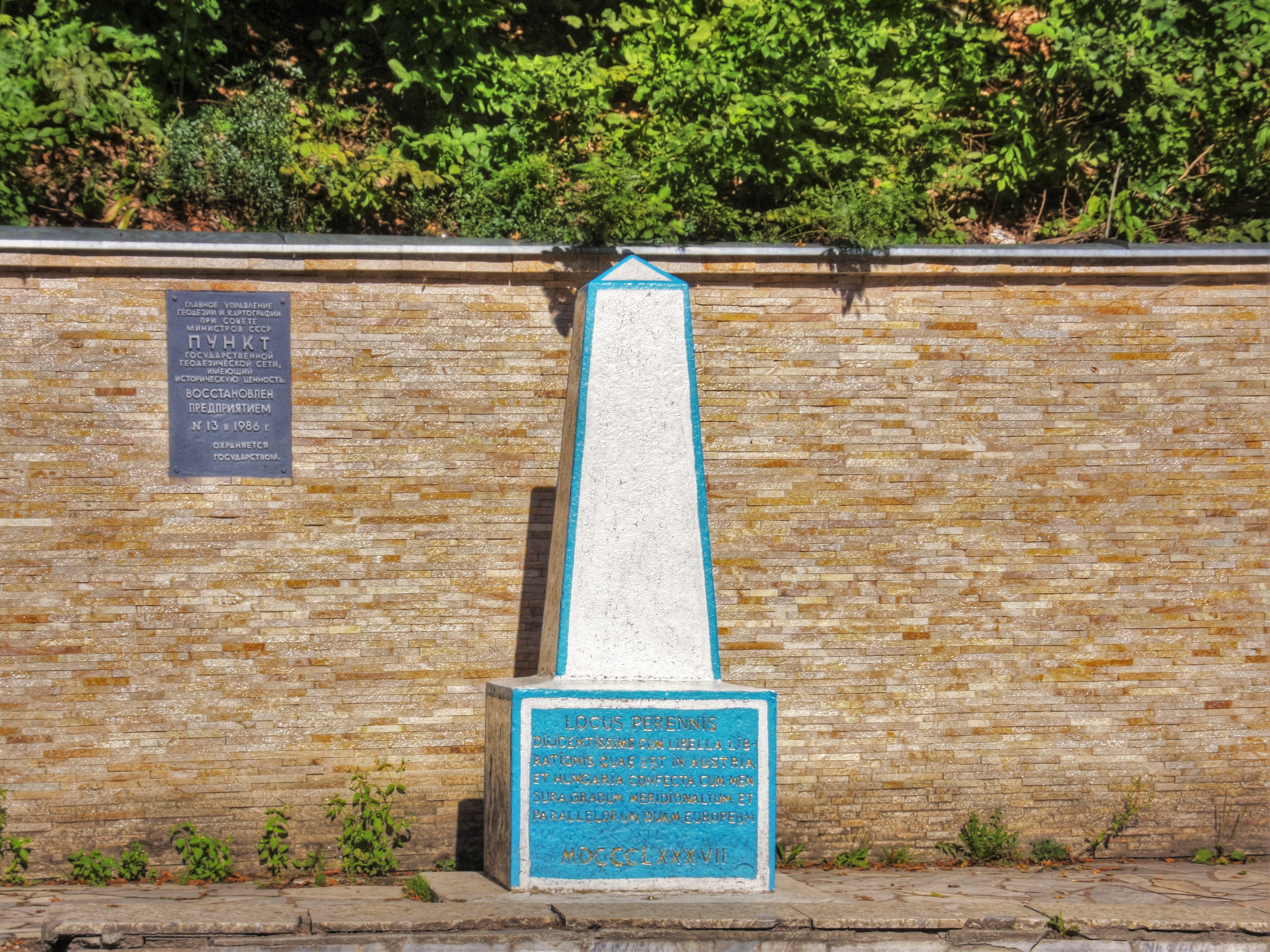 Geographical midpoint of Europe in Kruhlyy, Rakhiv Raion, Zakarpattia Oblast, Ukraine